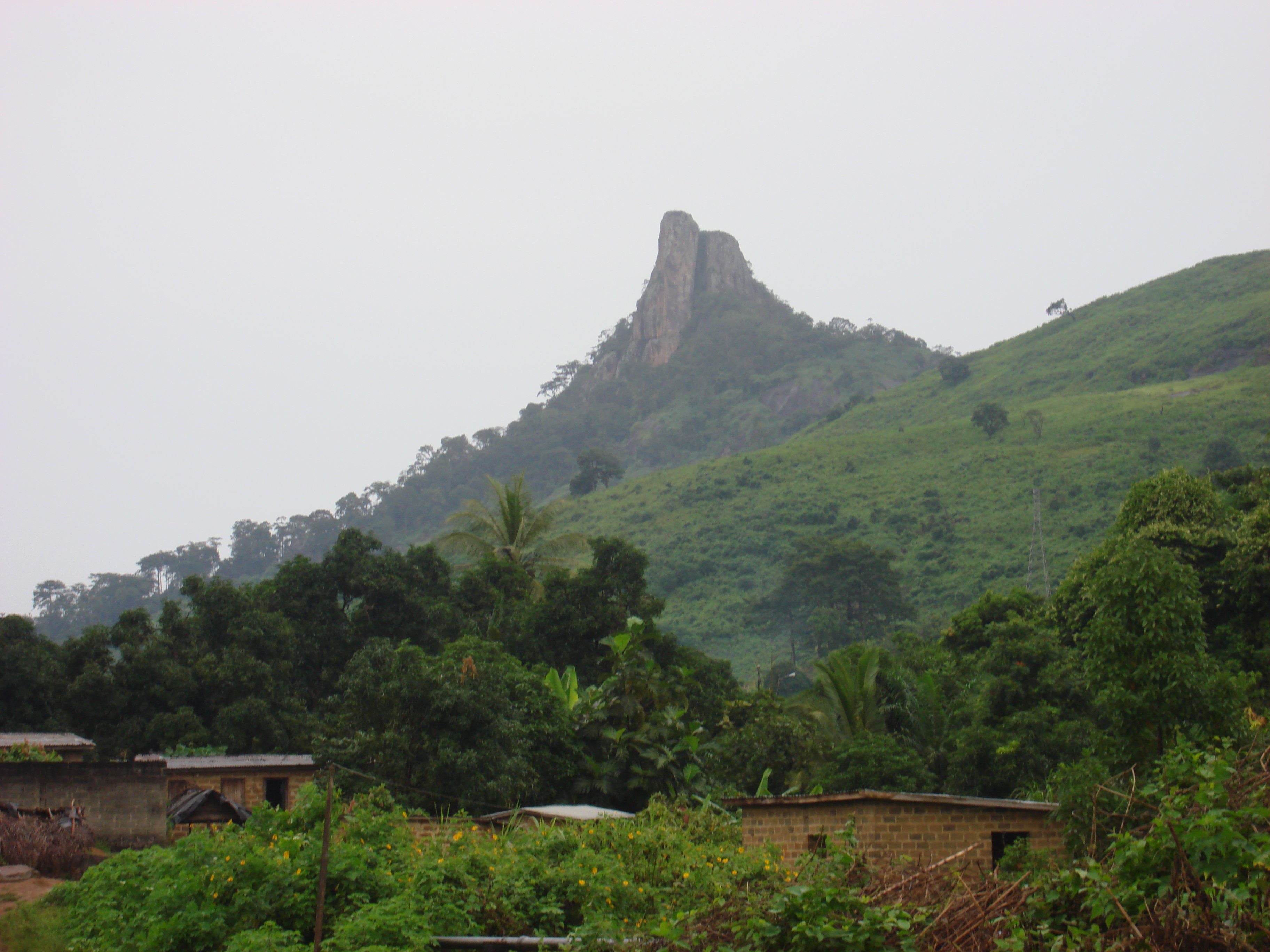 Volcanic plug in native forest and plant habitat, western Côte d'Ivoire.